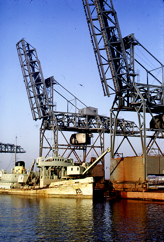 Iron ore unloaders, Birkenhead docks, Merseyside, England.